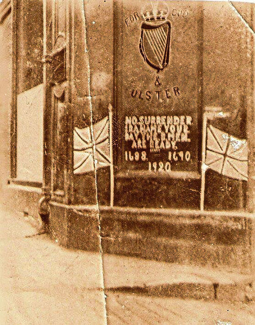 Loyalist political mural in Londonderry circa 1920. Text reads: 'For God & Ulster. No Surrender, IRA name your day, the B men are ready. 1688, 1690, 1920